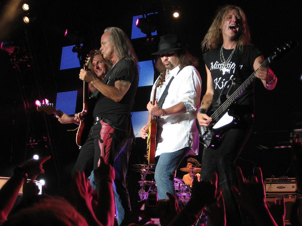 Lynyrd Skynyrd in concert - New Brockton, Alabama, June 7, 2008